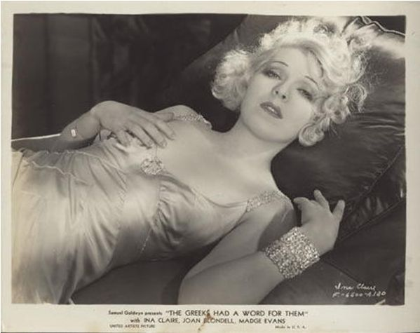 Publicity still of Ina Claire from The Greeks Had a Word for Them (1932) (also known as Three Broadway Girls).